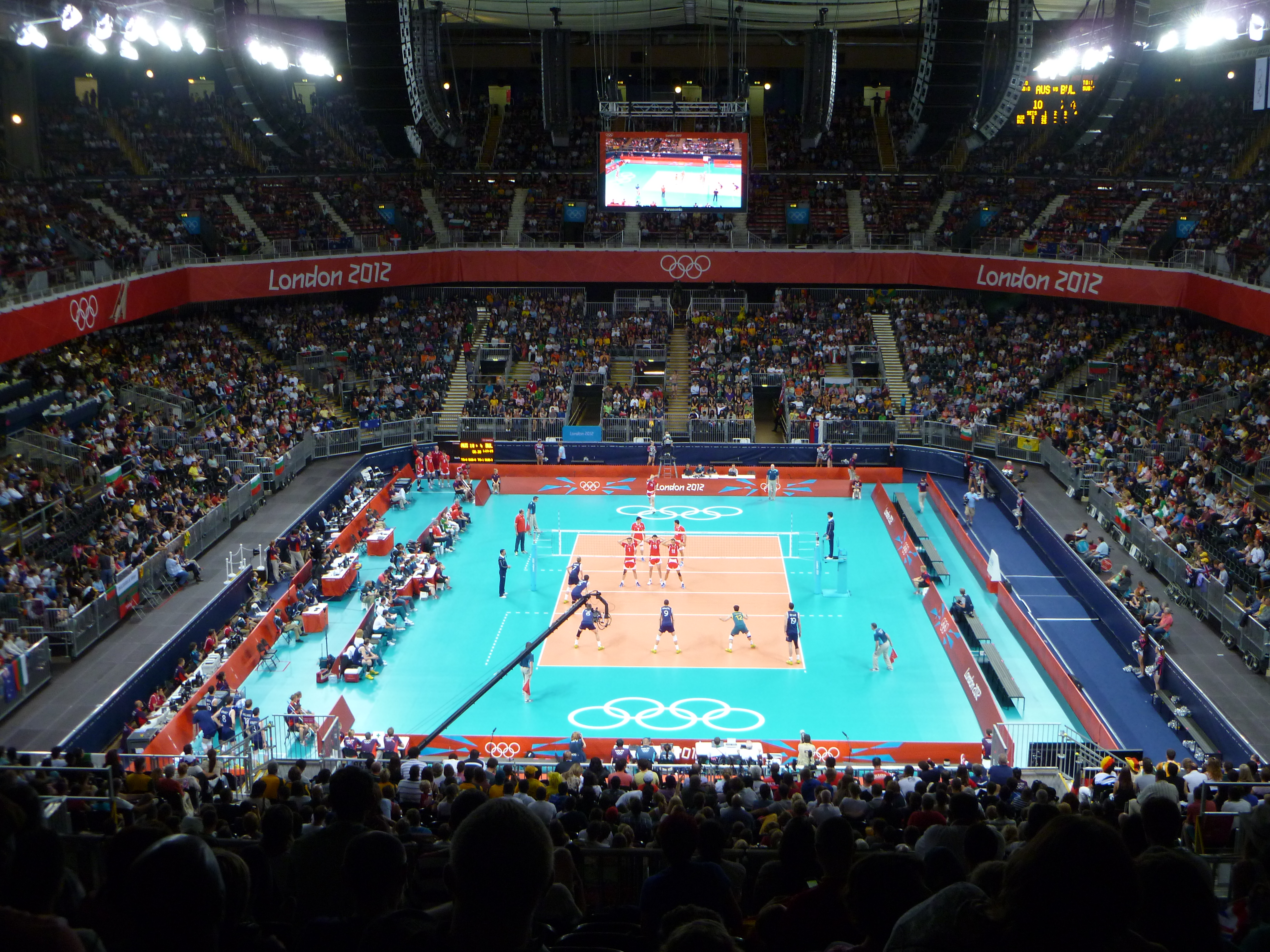 Earls Court hosting a volleyball match of the 2012 Olympic Games